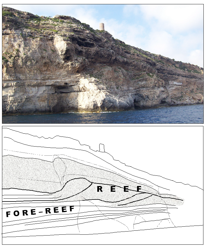 Preserved margin of a coral carbonate plarform. Miocene (Tortonian) of Mallorca (Balearic Islands - Spain). Visible the well bedded fore-reef sediments and the massive reef facies, characterized by prograding clinoforms and very thick depositional bodies.